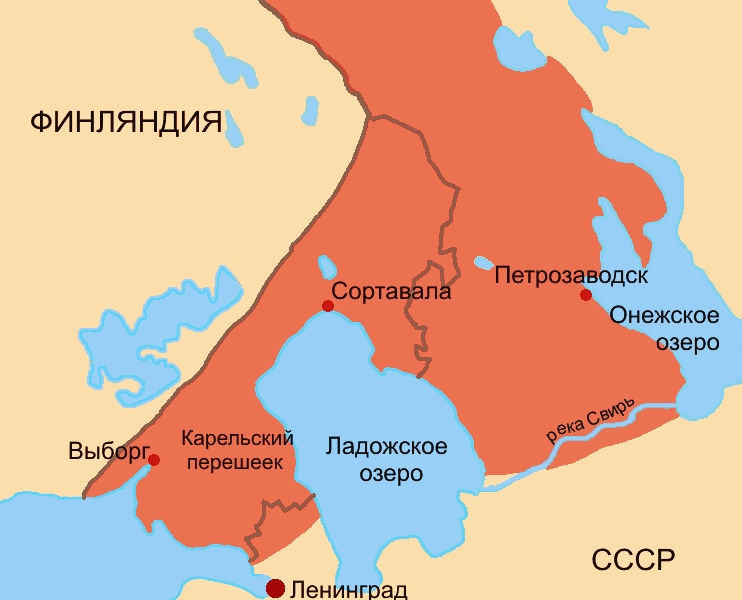 Finnish advance in Karelia during the Continuation War (1941–1944). The gray line marks the border of 1920, until the start of the Winter War (1939–1940).